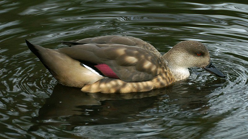 Crested Duck (Lophonetta specularioides) This image was created by Ken Billington. If you are interested in a high resolution copy of this image, please contact the author Ken Billington in order to negotiate conditions of use. Do not copy this image illegally by ignoring the terms of the license below, as it is not in the public domain. If you would like special permission to use, license, or purchase the image please contact me to negotiate terms. More free images can be found on Ken Billington's Bird & Wildlife Photography.